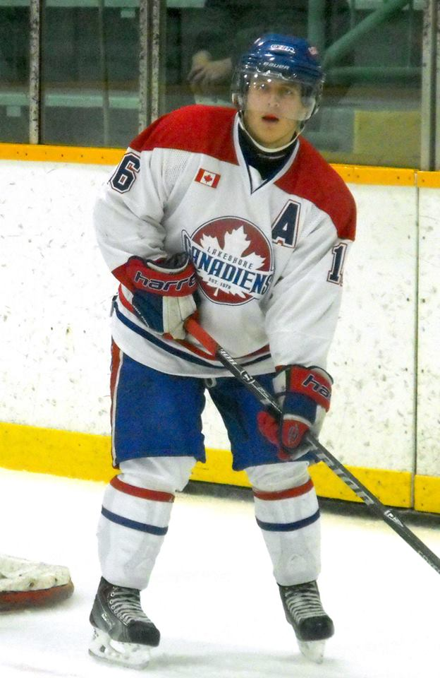 This photo was taken by Devan Mighton during the 2014-15 GLJHL season.